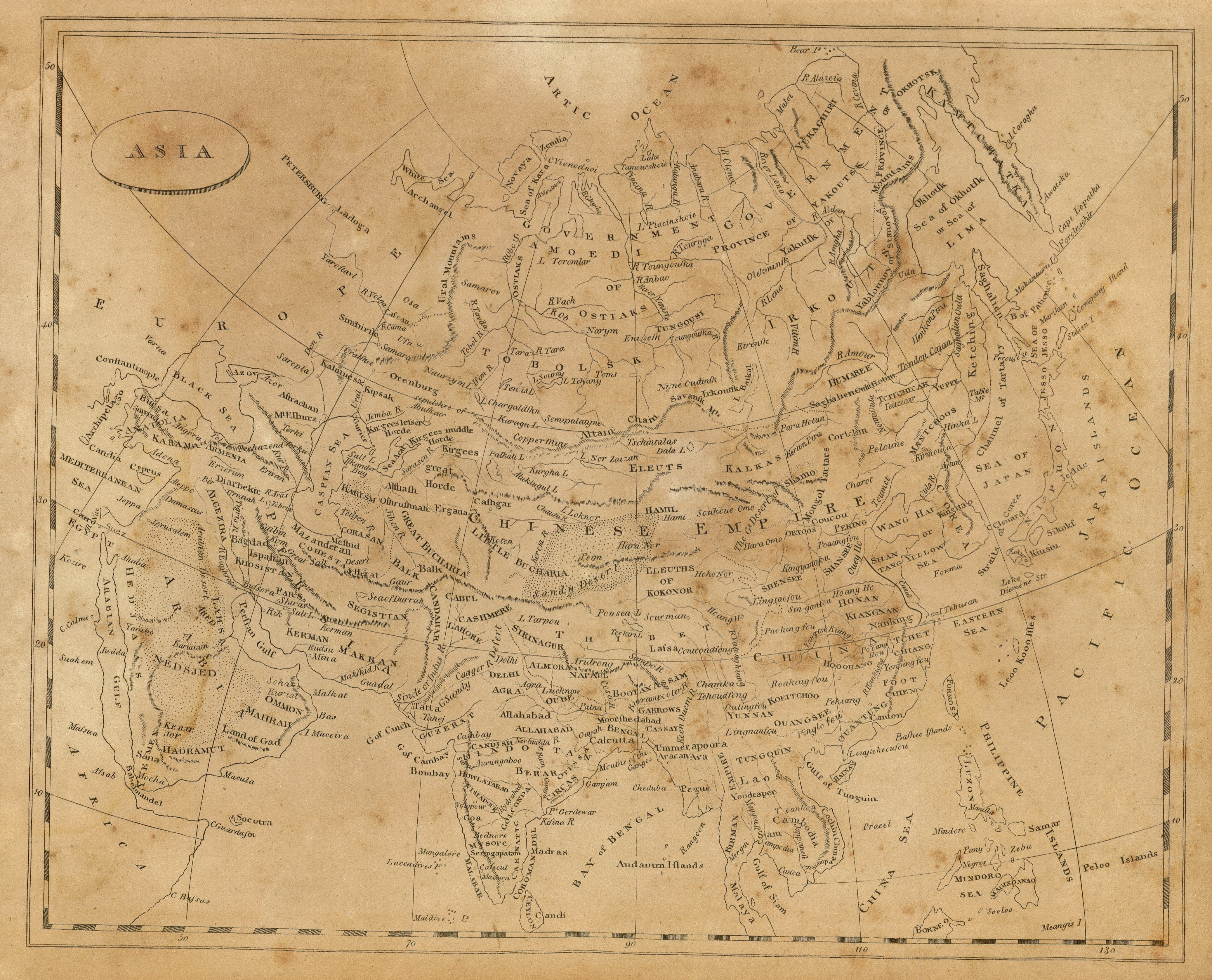 Asia. Publisher: Boston: Thomas & Andrews Height cm: 21 Width cm: 25 Scale 1: 45,000,000